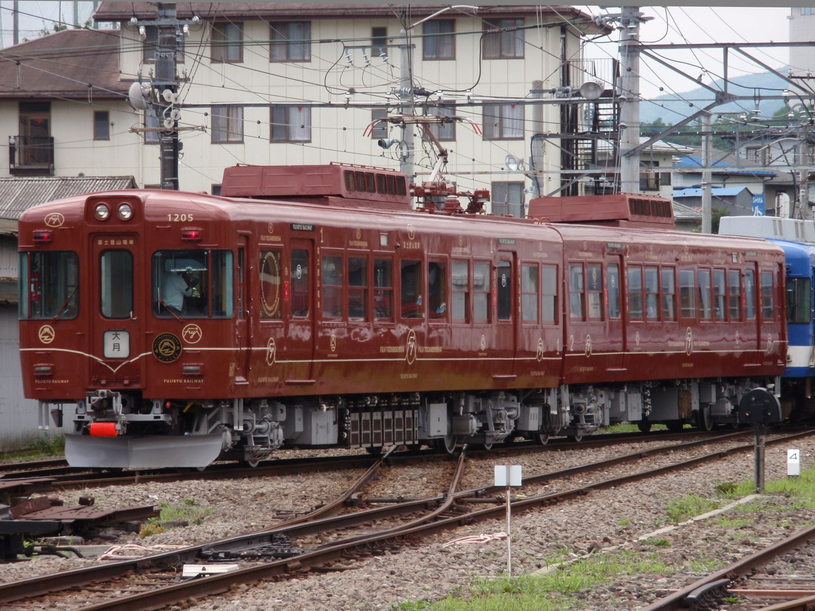 Fujikyuko Co., EMU type 1200 for "Fuji Tozan Densha"